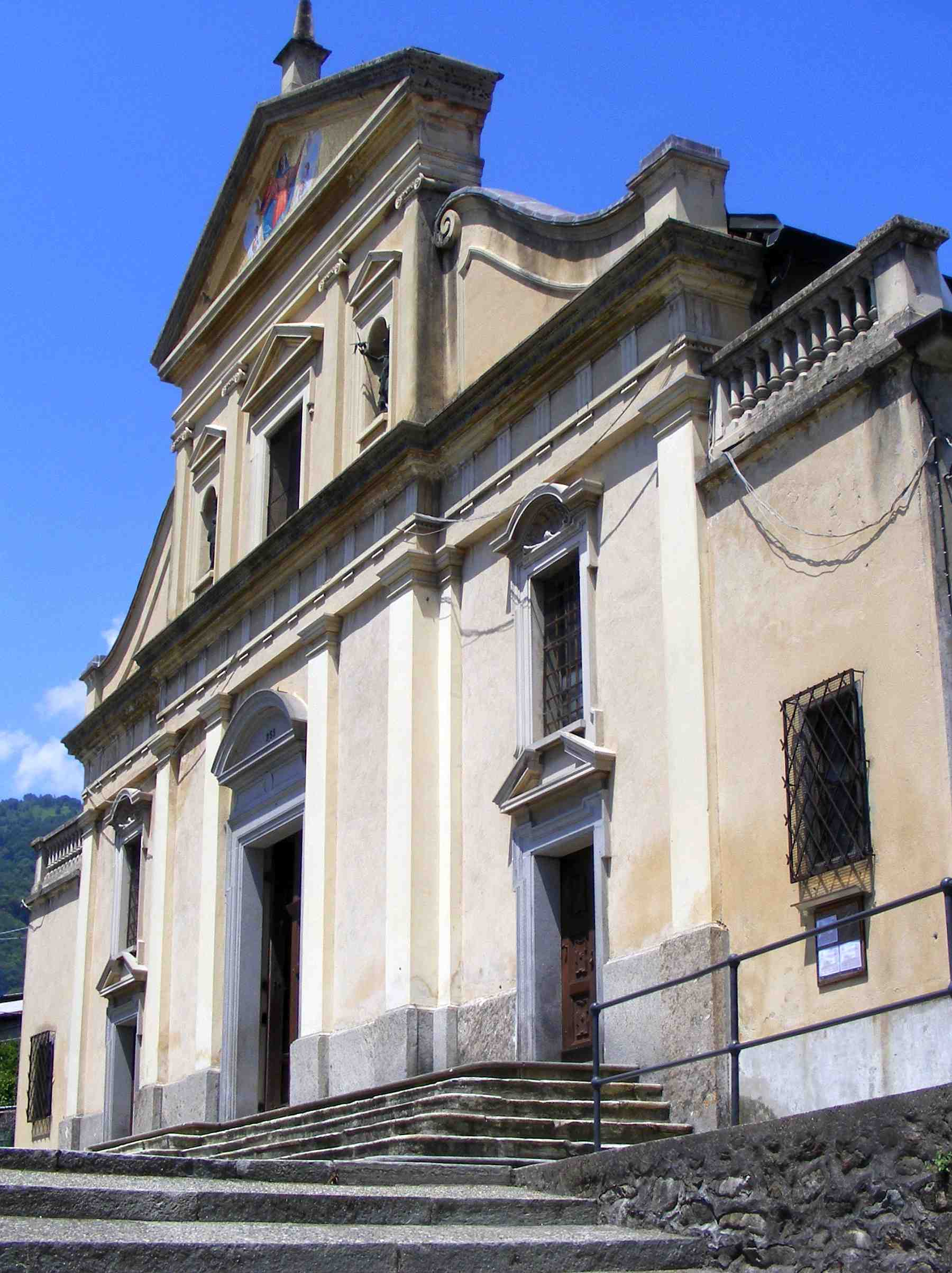 Forno Canavese (TO, Italy): Assunta parisch church